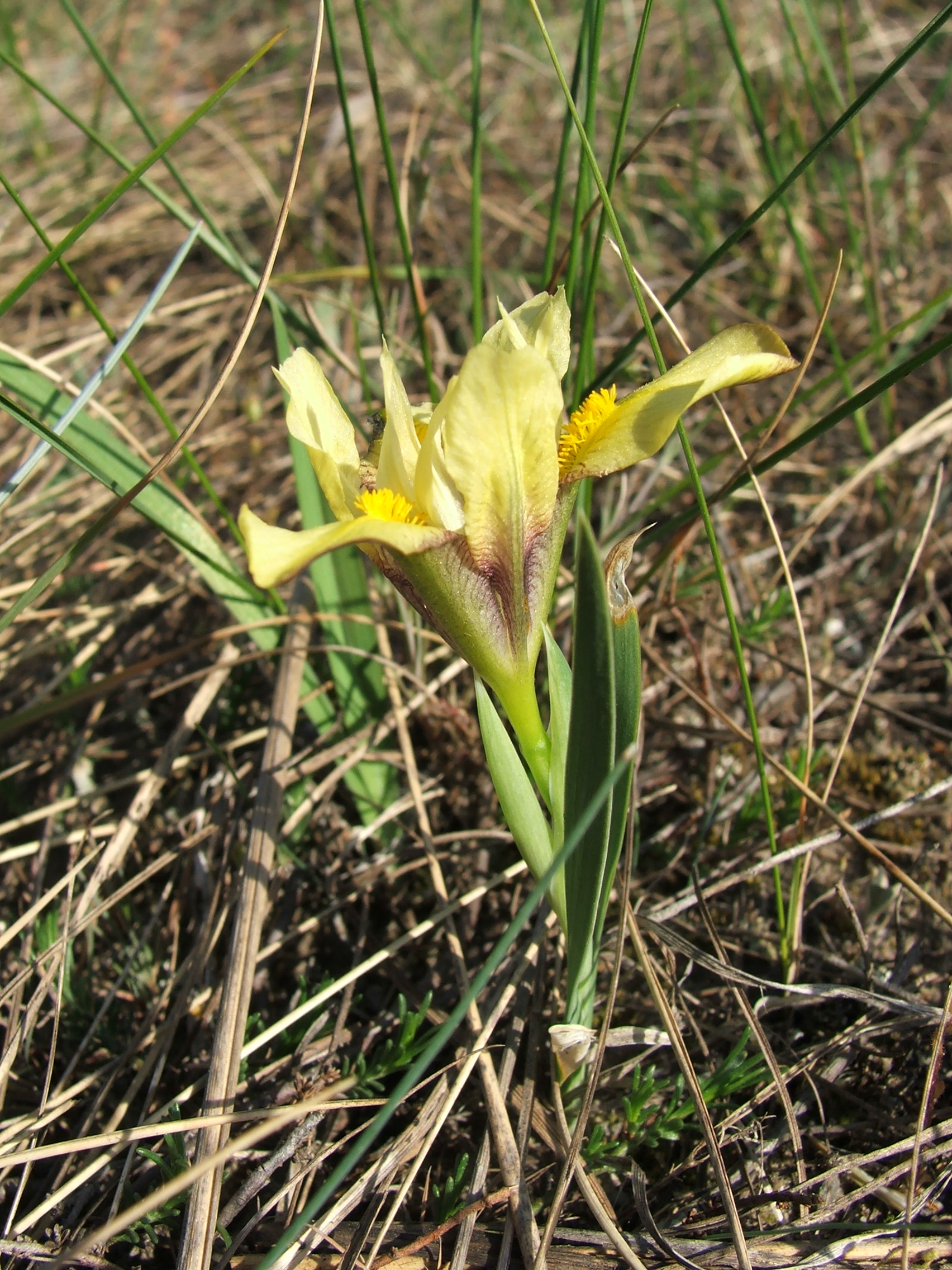 Iris humilis subsp. arenaria syn. Iris arenaria. Szentendrei-sziget, Hungary.